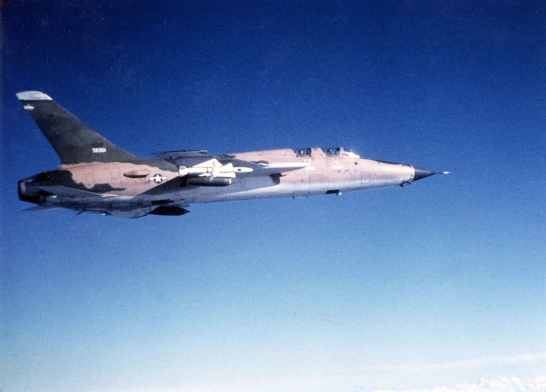 A U.S. Air Force F-105F-1-RE Thunderchief aircraft (s/n 63-8301) of the 355th Tactical Fighter Wing in flight over Southeast Asia in 1966/67. It is armed with AGM-45 Shrike anti-radiation missiles and CBU-24 cluster bombs. This aircraft was flown by USAF Major Leo K. Thorsness and Capt. Harold E. Johnson (Electronic Warfare Officer), on 19 April 1967 during a SAM surpression "Wild Weasel" mission covering a strike force target that attacked the Xuan Mai army training compound, near Hanoi, North Vietnam. Maj. Thorsness was awarded the US Medal of Honor for risking his life to assist in the rescue of three downed aviators during this mission. The F-105F 63-8301 was later converted to an F-105G. Aircraft 63-8301 continued serving at Takhli RTAFB until it was closed in late 1970, it was than sent to Korat RTAFB. It was scheduled to go to the Air Force Museum at Wright Patterson AFB, Dayton, Ohio to represent the Wild Weasels. However, on it last operational mission at George AFB, California it had engine failure and was lost(1).